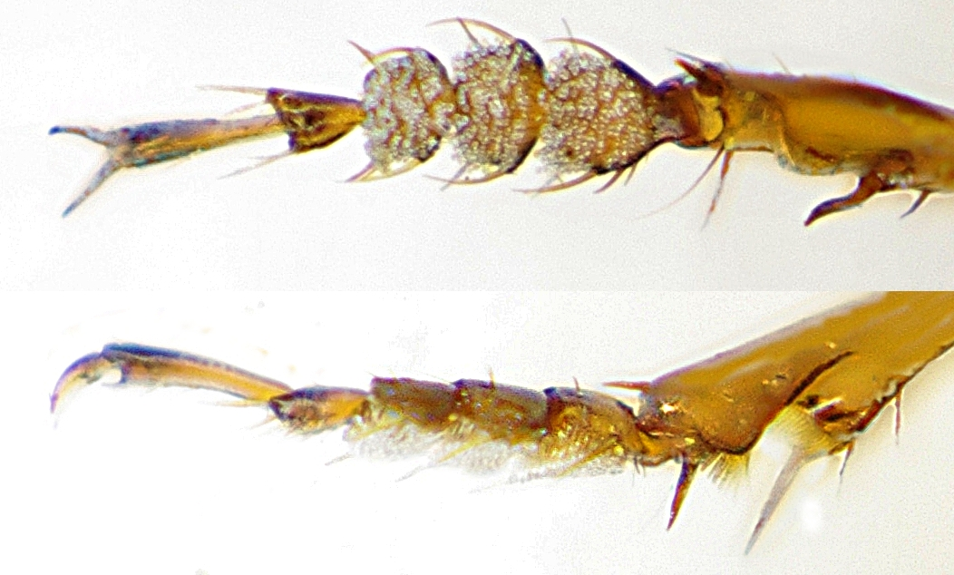 Part of frontleg of Loricera pilicornis above: from underside, down: from the inner side Putzscharte, Hafthaare auf den drei ersten Tarsenglieder